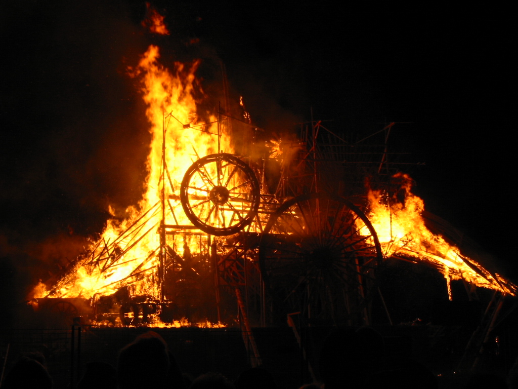 Luginbühl installation "Signal" (2002) set in fire on Mont Vully